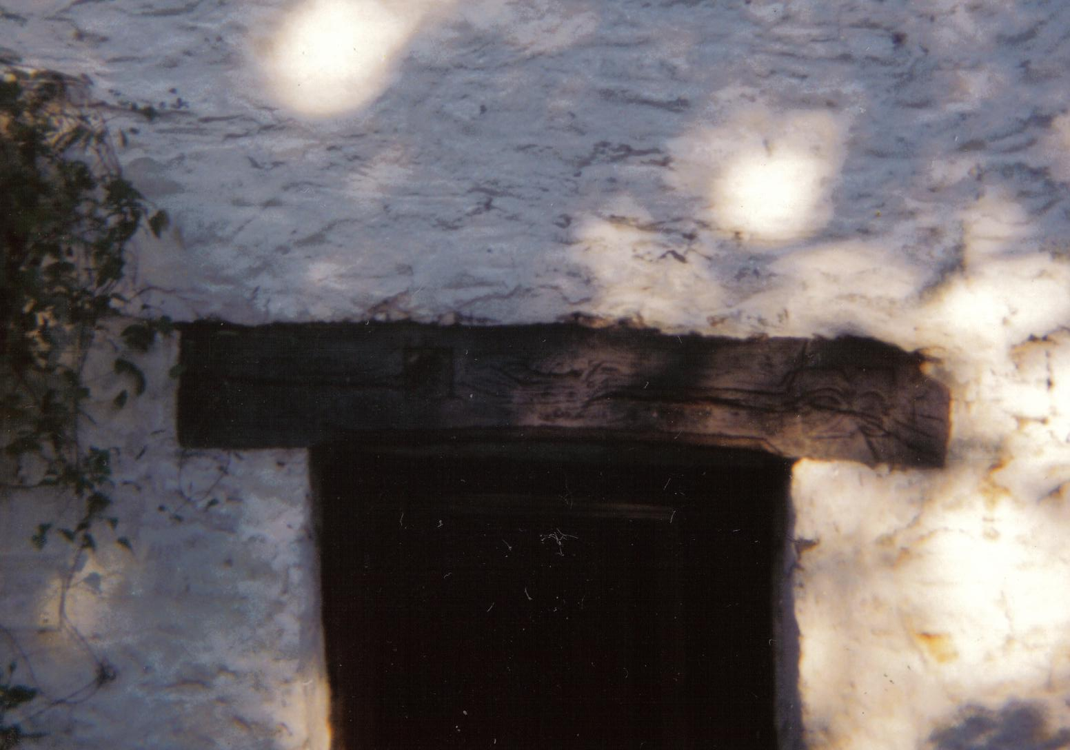 A wooden lintel used as a marriage Record of 1523 - 'WG' and 'RS'. Penybenglog, Neferyn, Cymru (Wales).